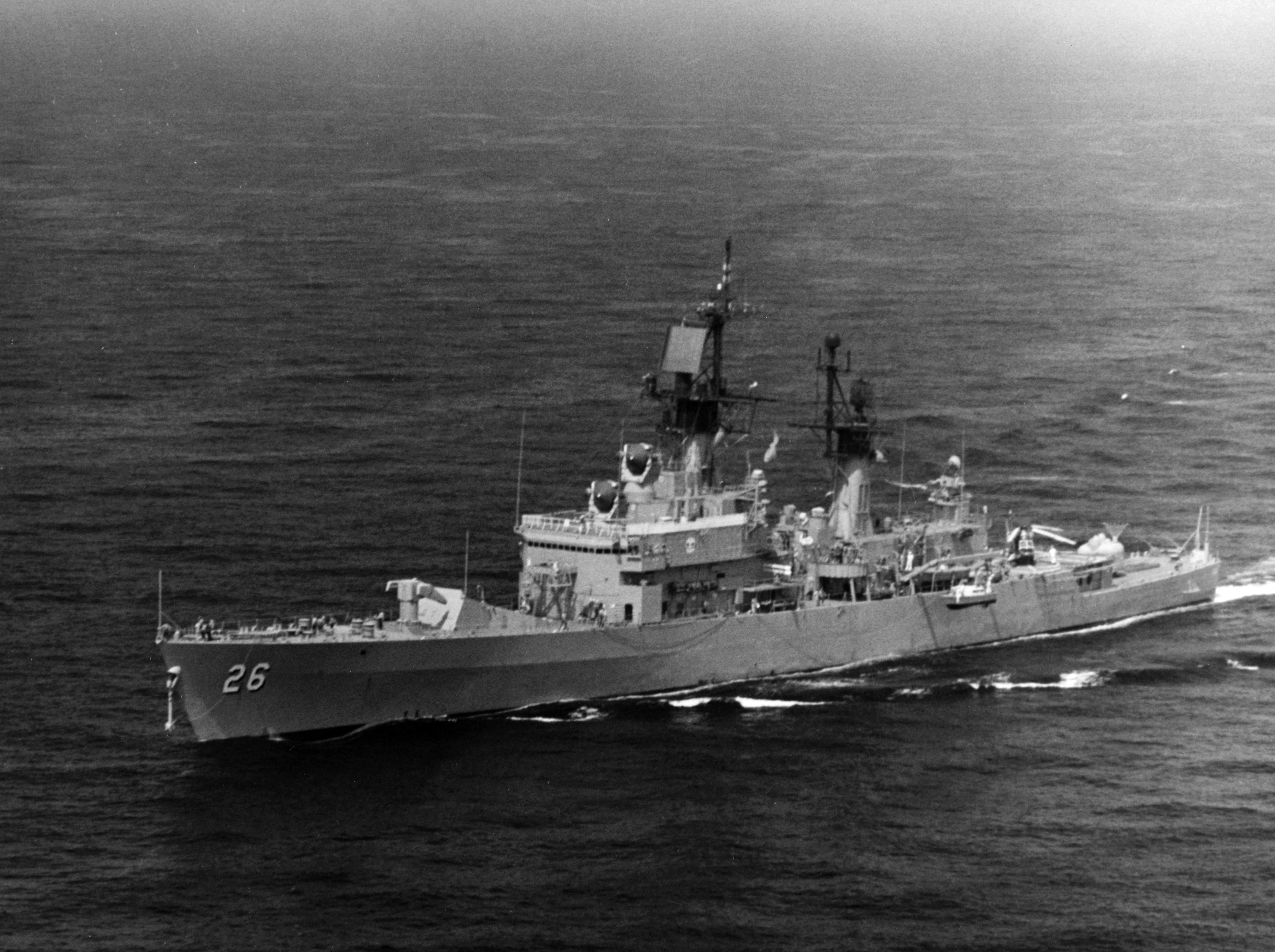 The U.S. Navy guided missile cruiser USS Belknap (DLG-26) underway in the Mediterranean Sea at the time of the October 1973 Yom Kippur War.